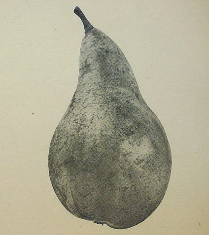 Poire LE LECTIER, page 316 , Le verger français.